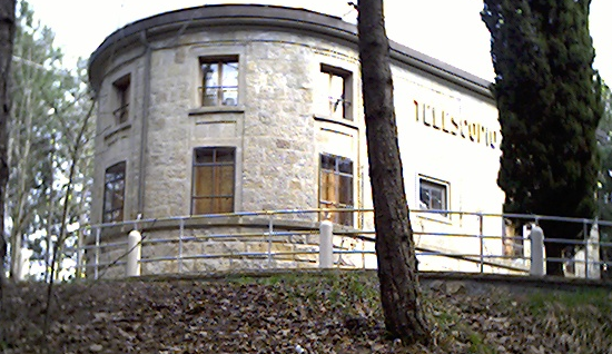 Dome of the small (60 cm) Loiano (Bologna, Italy) telescope